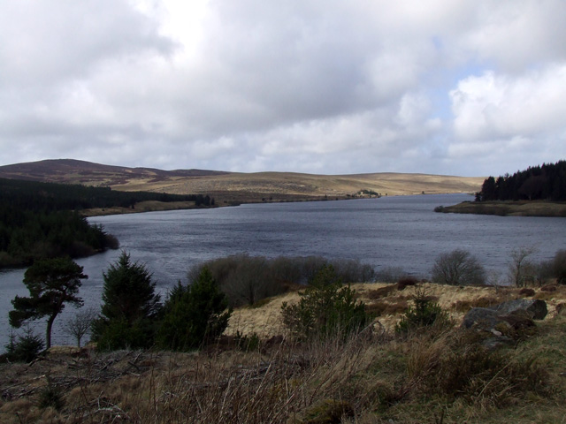 The Alwen reservoir View of the northwest section of the Alwen reservoir